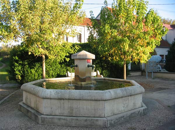 Fontaine centre du village